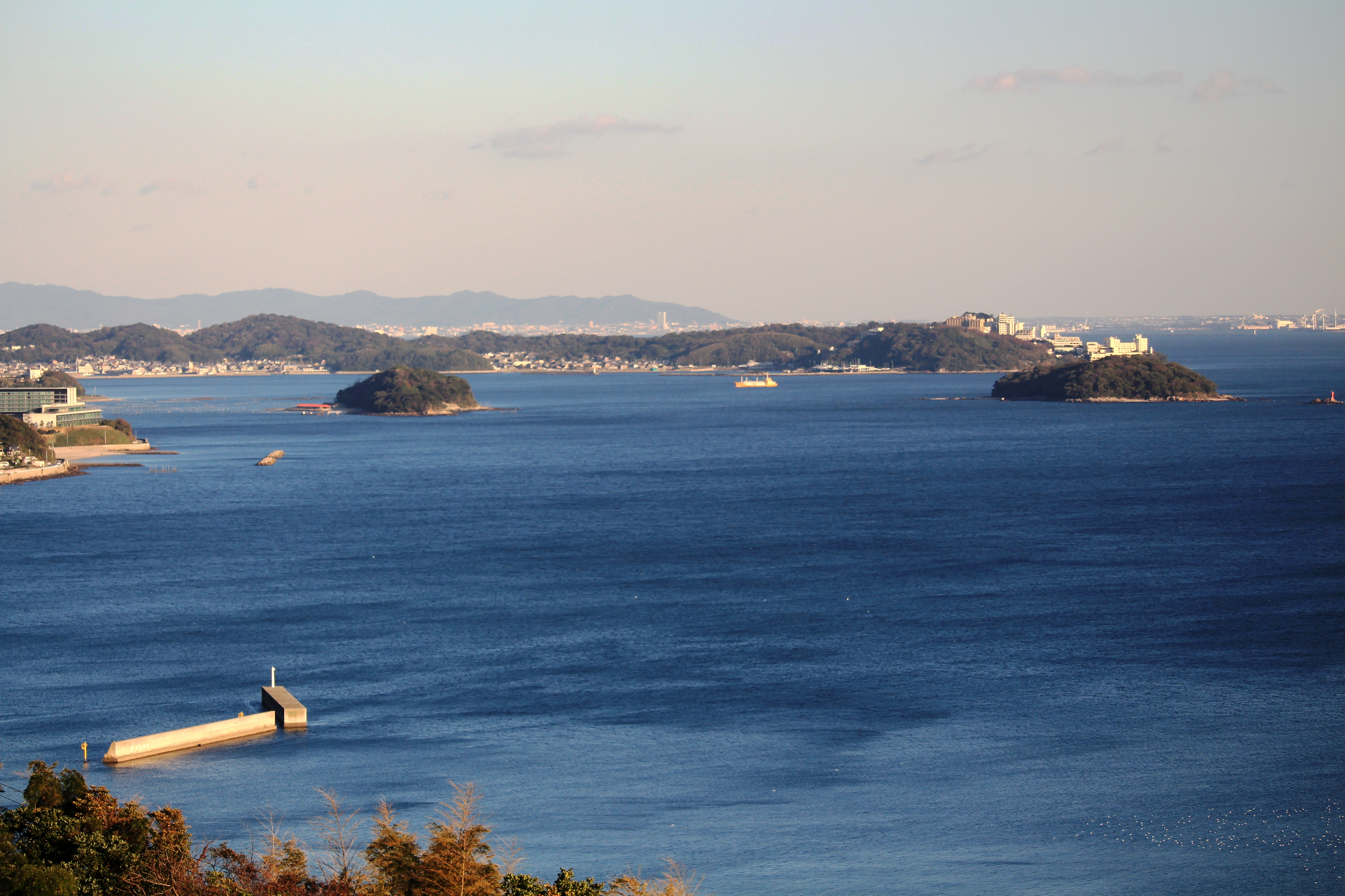 Mae Island and Oki Island, in Nishio, Aichi prefecture, Japan.